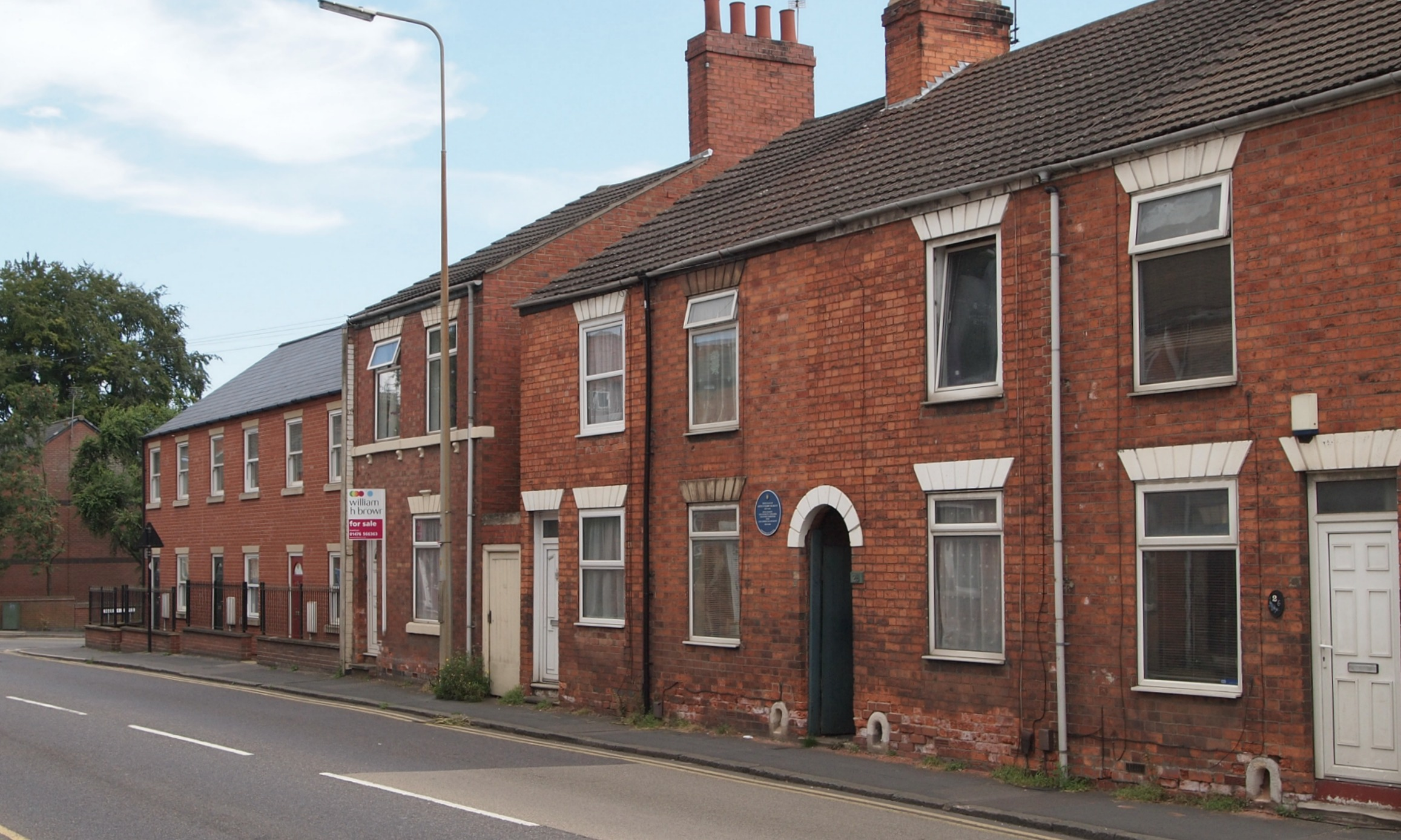 The birth place of Arthur Harry Blissett (1878-1955) a former Royal Marine and a fellow explorer on the 1901-1904 "Discovery" expedition to the Antarctic with Capt. Robert Falcon Scott. This is the A607 (Belton-Grantham) road with the town centre lying less than a quarter of a mile behind the photographer.